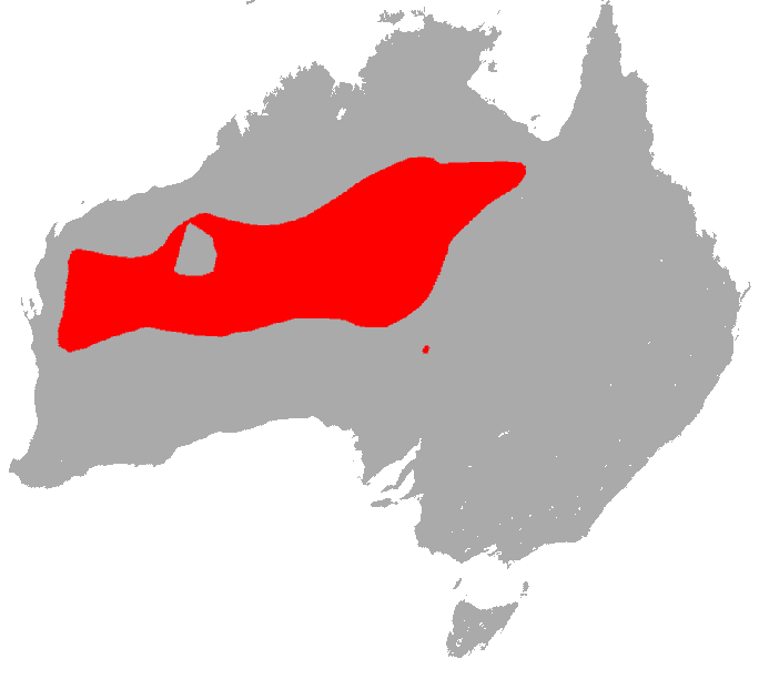 Hill's Tomb Bat (Taphozous hilli) range